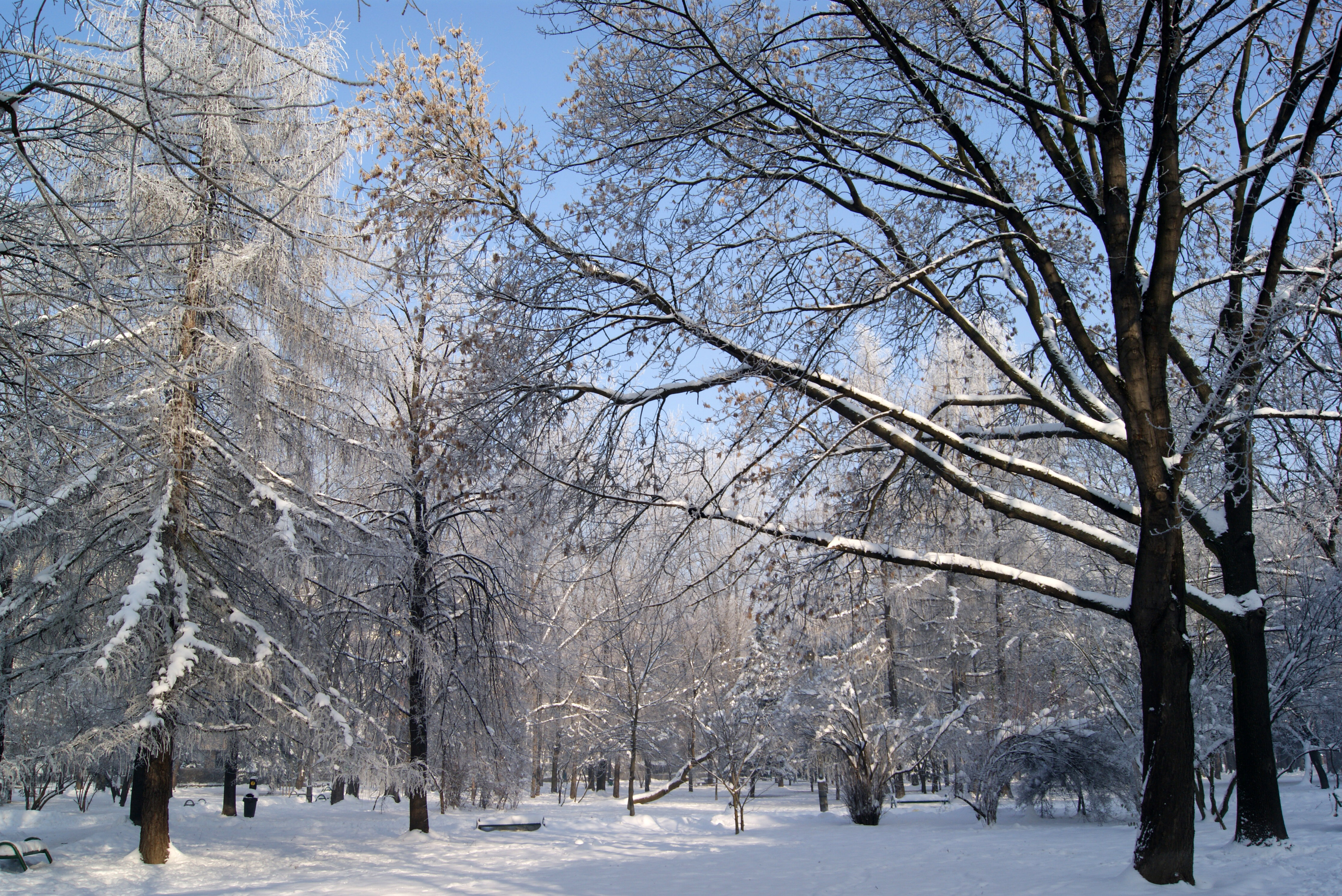 Szwedzki Park, winter,os. Szklane Domy,Nowa Huta,Krakow,Poland